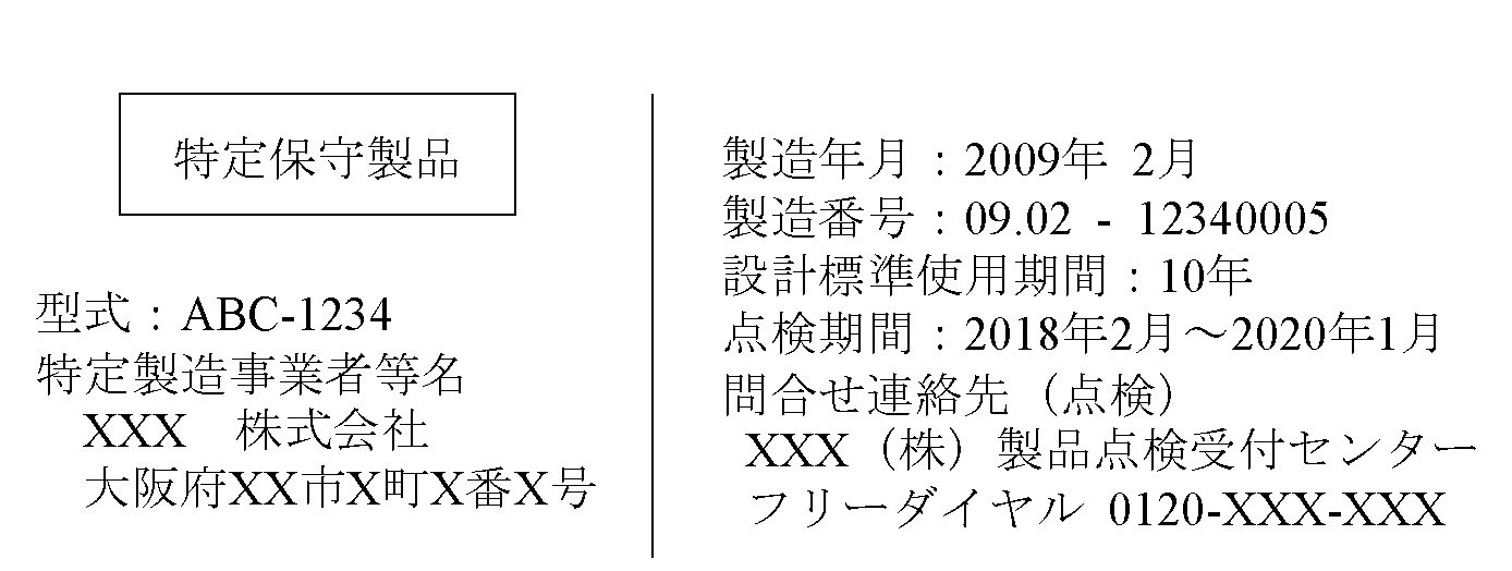 Literary: Indication on the "Product, specific maintenance / inspection required (Japan)" under law (Romaji: Cyōki shiyō seihin anzen tenken seido no hyōji) since April 2009, example